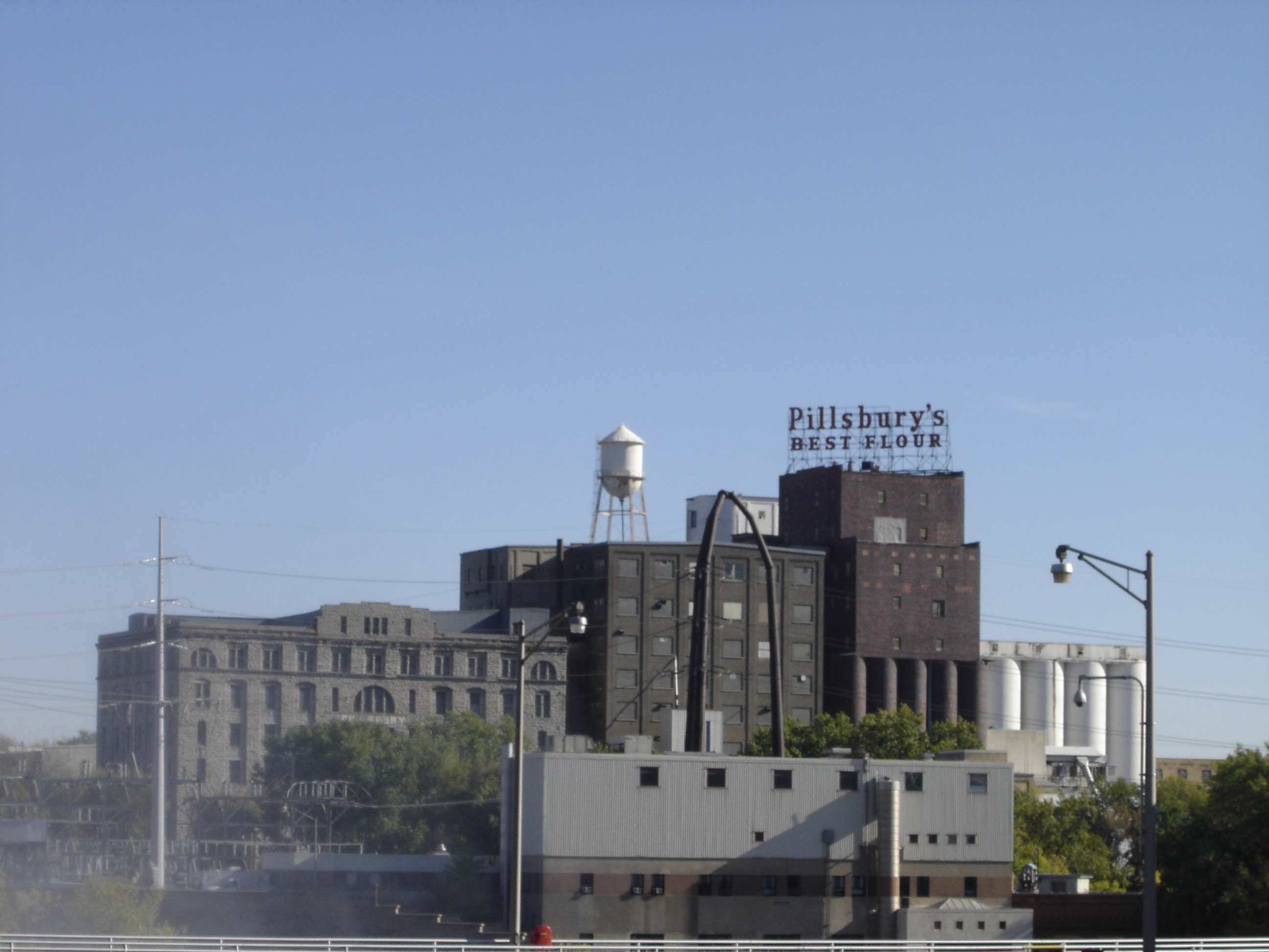 Pillsbury "A" Mill on the banks of the Mississippi River.